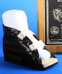 Picture of the original cast boot, the first product of DeRoyal Industries.